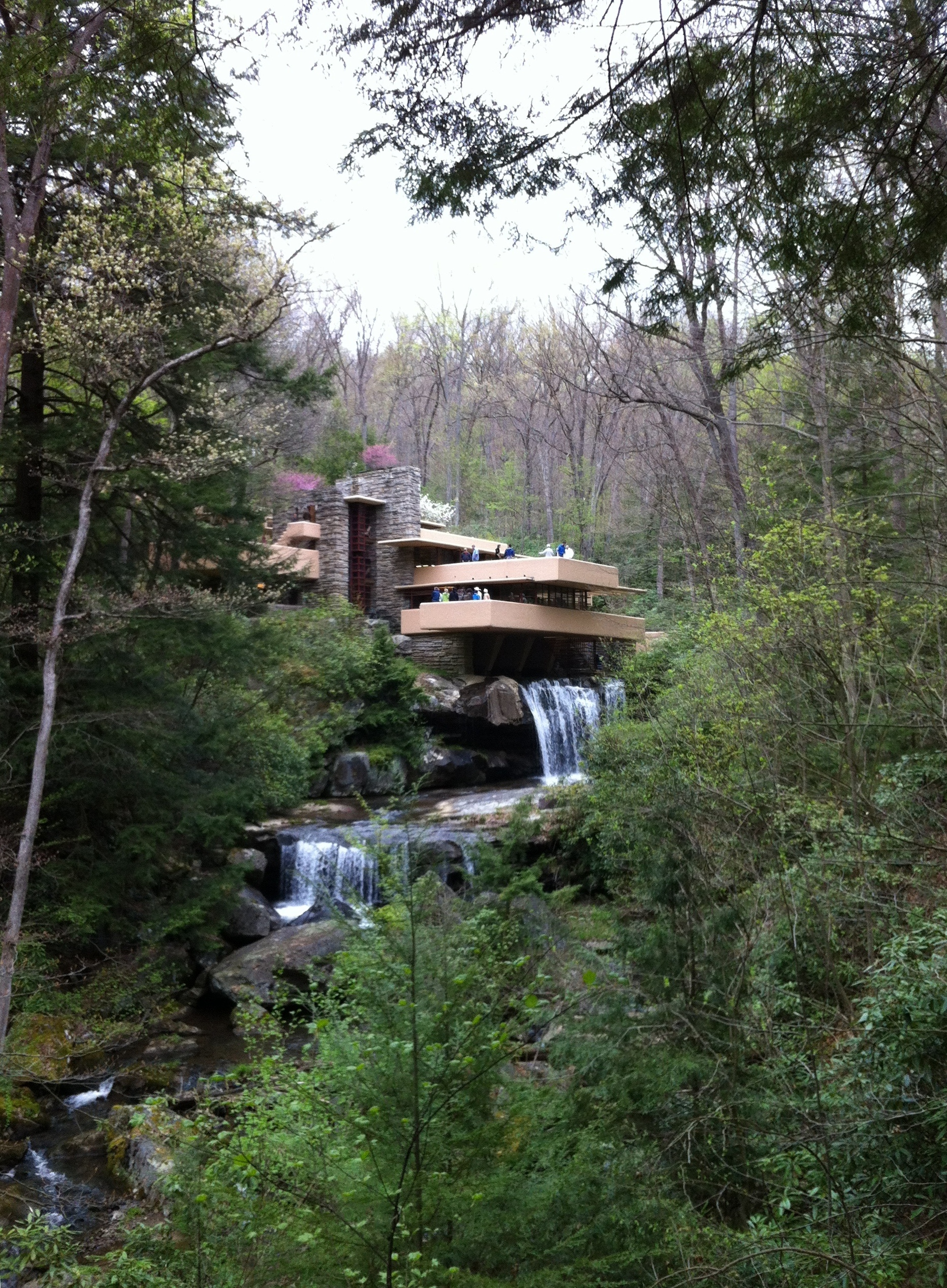 Fallingwater